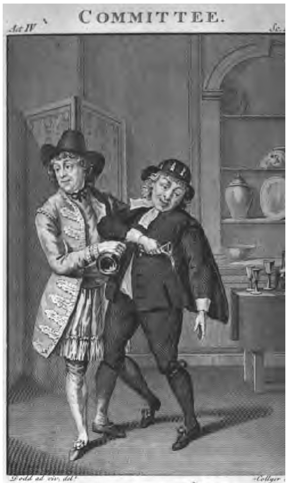 Mr. Moody as Teague and Mr. Parsons as Obadiah in The Committee by Robert Howard (acte IV scene 2)